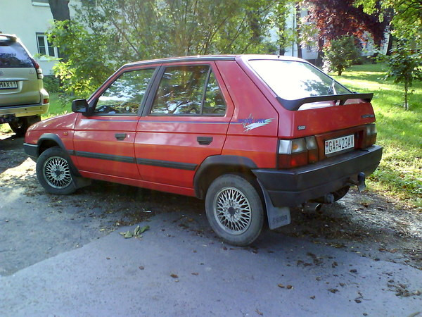 Škoda Favorit Sport Line